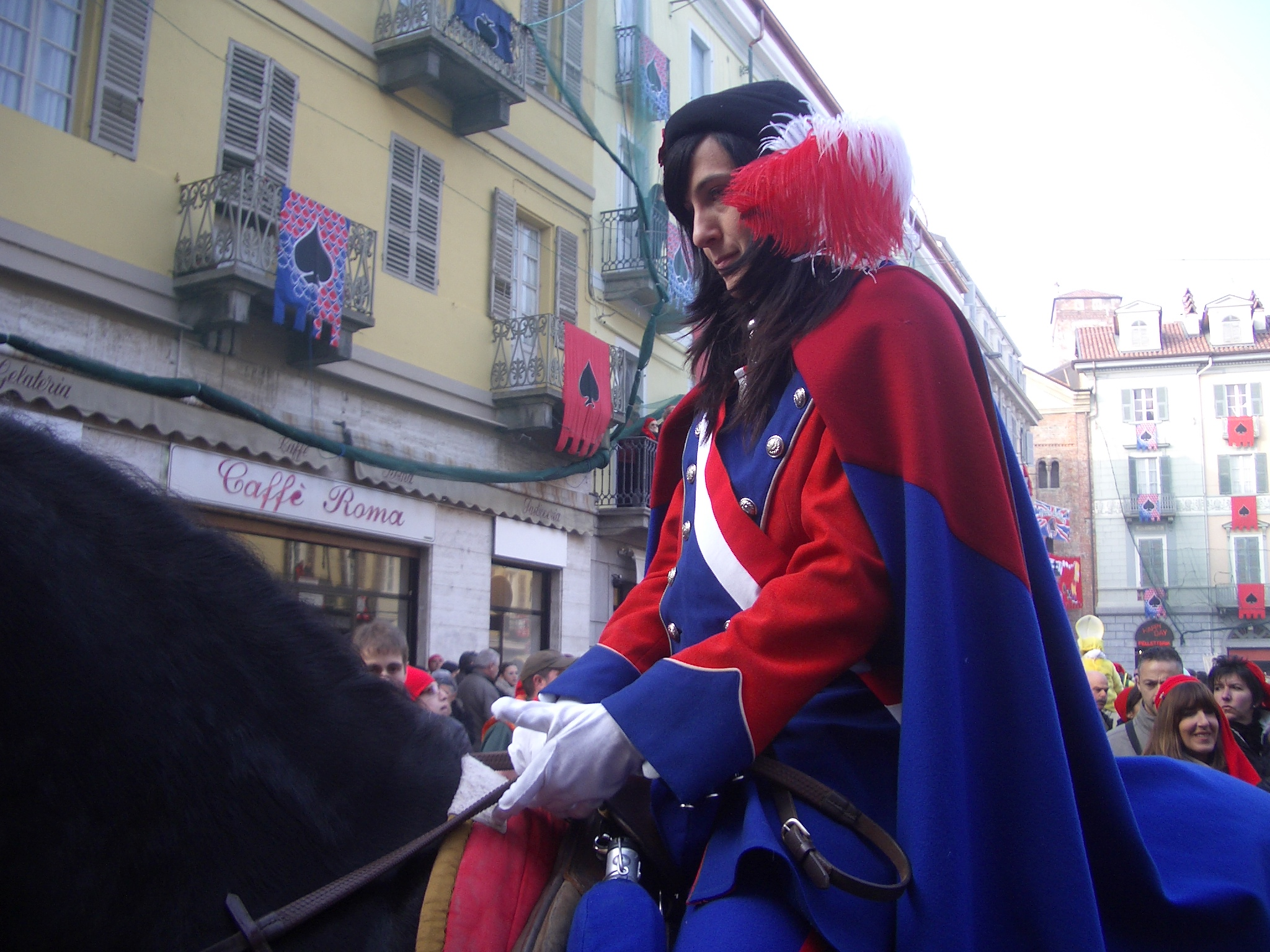 Carnival of Ivrea, Vivandiera